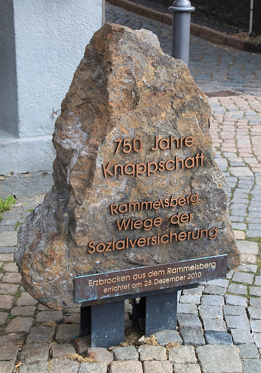 Goslar: memorial stone "750 years miners' association".